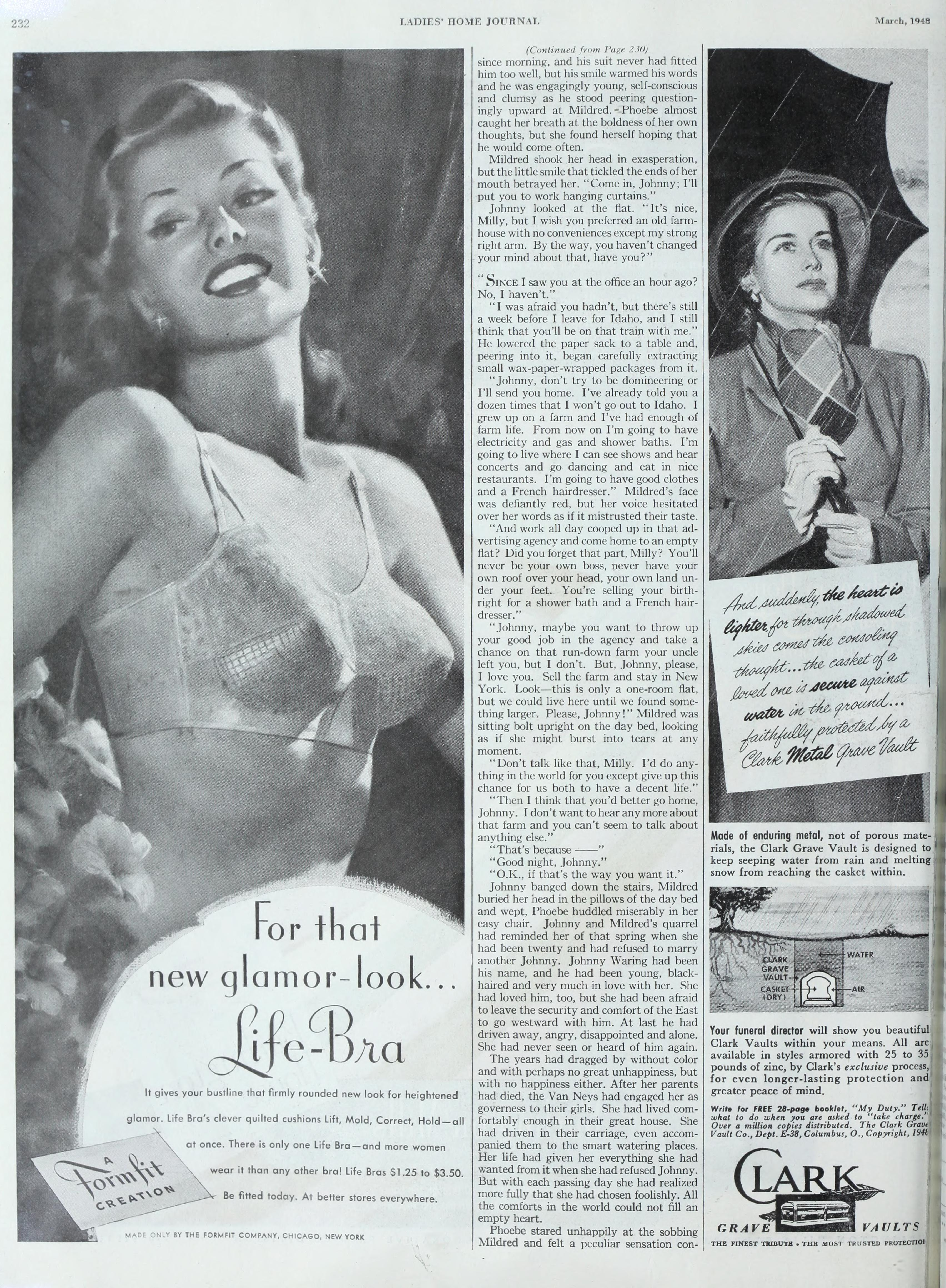 Life-Bra Title: The Ladies' home journal Year: 1889 (1880s) Authors: Wyeth, N. C. (Newell Convers), 1882-1945 Subjects: Women's periodicals Janice Bluestein Longone Culinary Archive Publisher: Philadelphia : (s.n.) Text Appearing Before Image: J , TTTTTToTk • DECORATIVE FABRICS DIVISION URLINCTON MILLS CORPORATION OF NEW YORK 350 FIFTH AVE 232 I.ADTFS nOMF. JOURNAL March, 1948 Text Appearing After Image: ror that